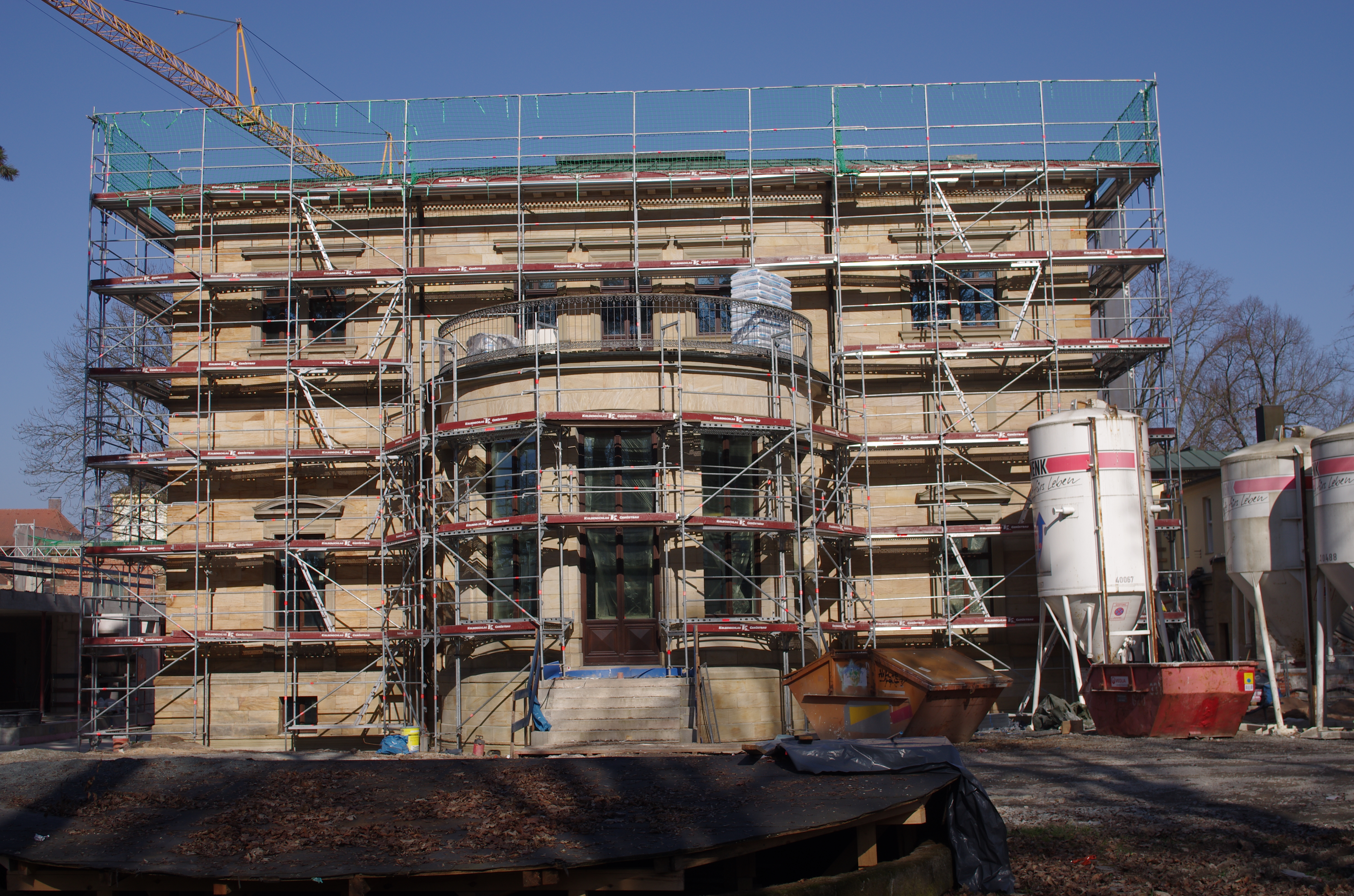 Back side of Haus Wahnfried during renovation early 2014